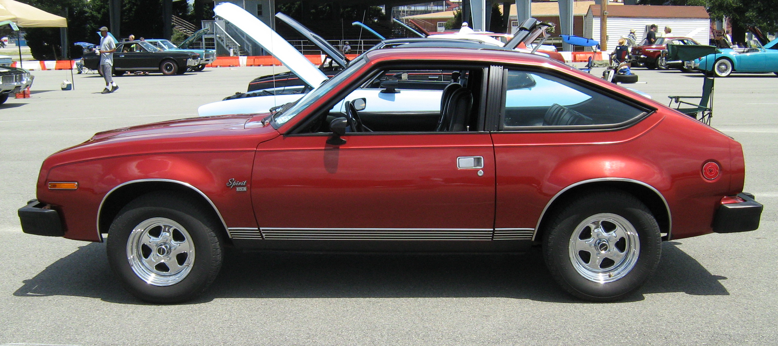 1979 AMC Spirit GT. A subcompact 2-door liftback with factory 304 CID (5.0 L) V8 engine and four-speed manual transmission. Finished in Russet Metallic. Note: aftermarket wheels